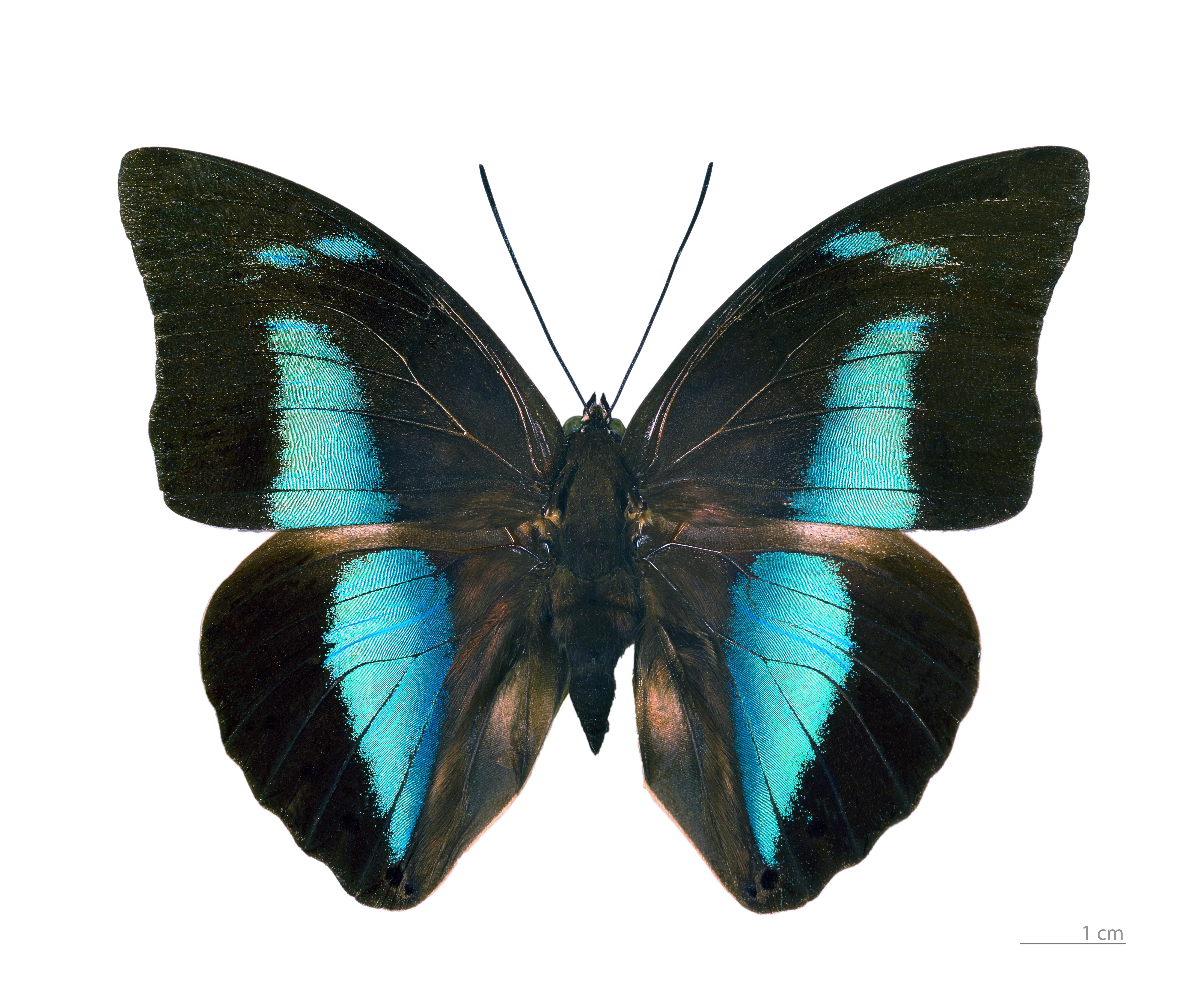 White-spotted Prepona ♂ - Dorsal side Locality: Satipo, Junín Region, Peru.